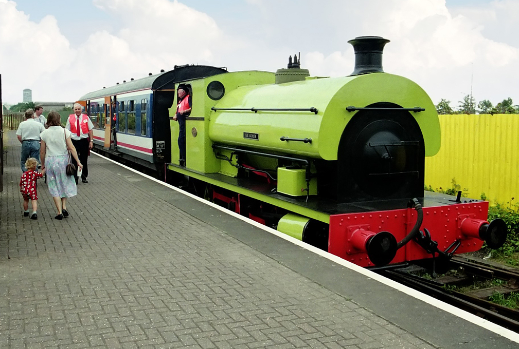 Long before there was the Steam Railway at Barry (now closed). There was the Butetown Railway Centre in Cardiff. Operating along the length of the platform at Bute Rd station. This was taken in the early 1990's.